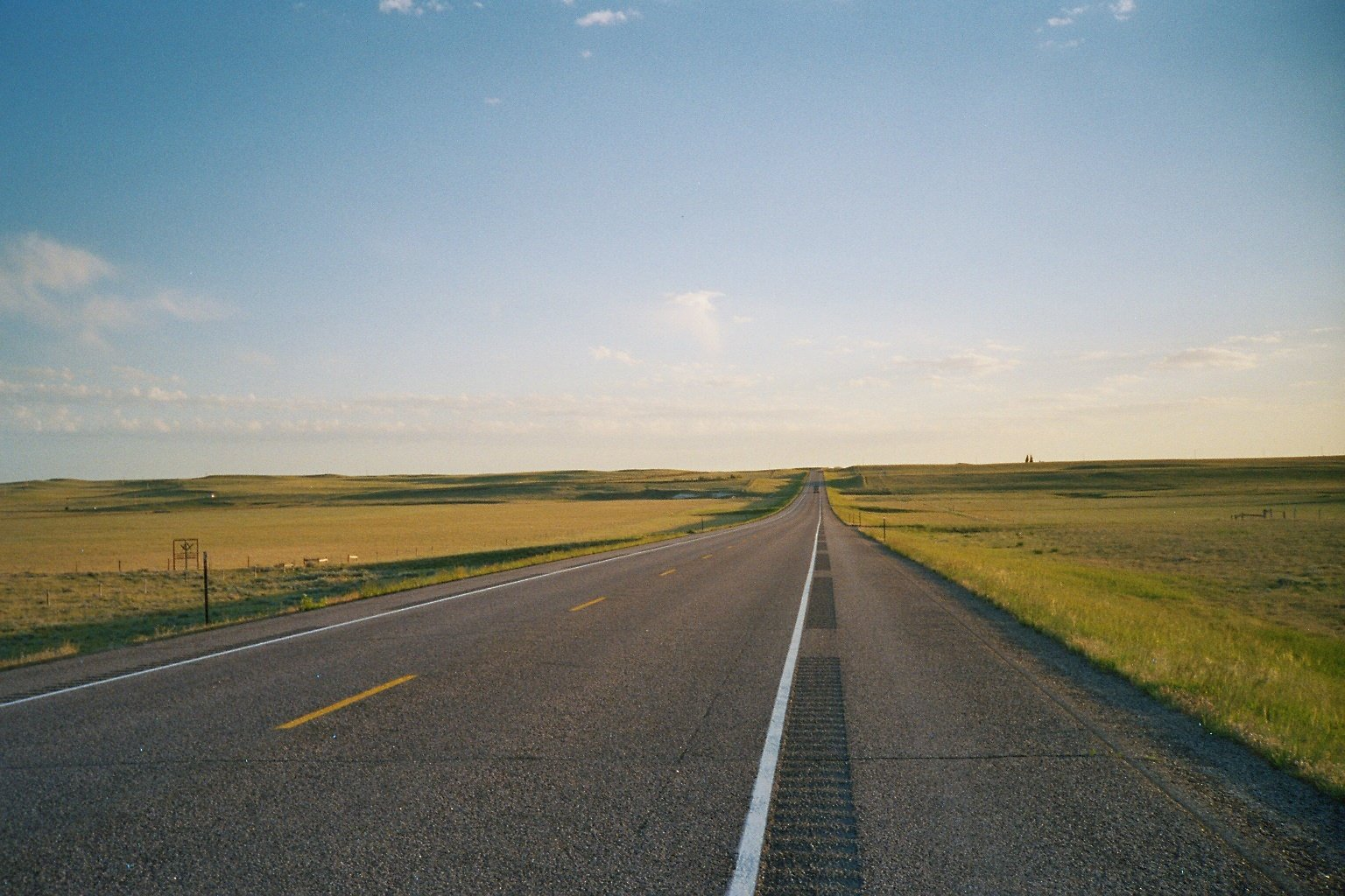 Niobrara County Wyoming SR85